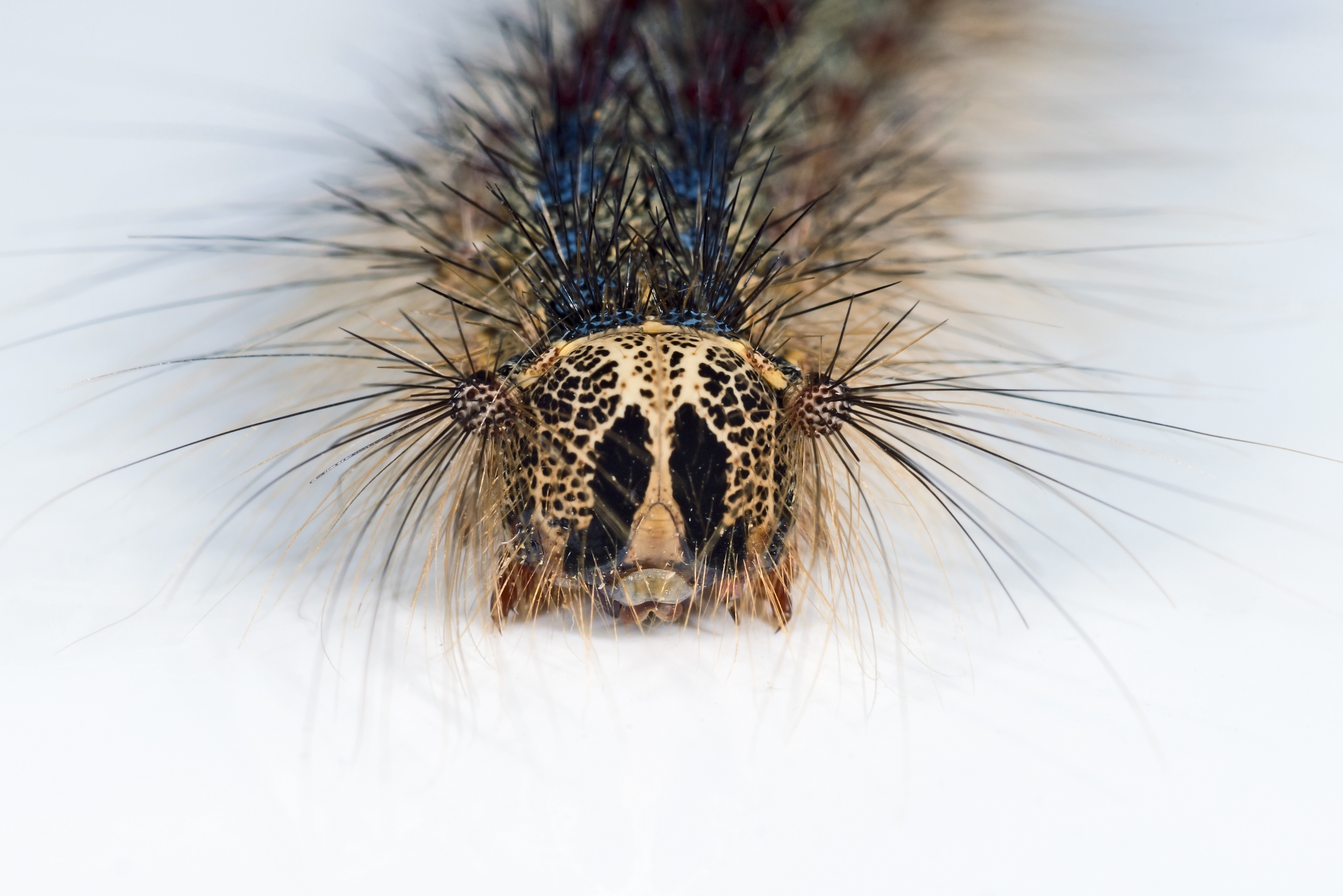 Caterpillard of Gypsy Moth, on a sheet of paper at the bottom of an oak tree